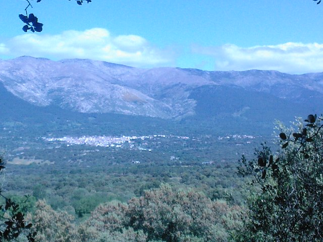 Casavieja